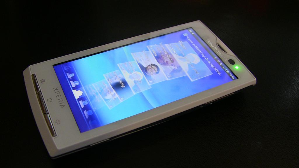 Sony Ericsson Xperia X10